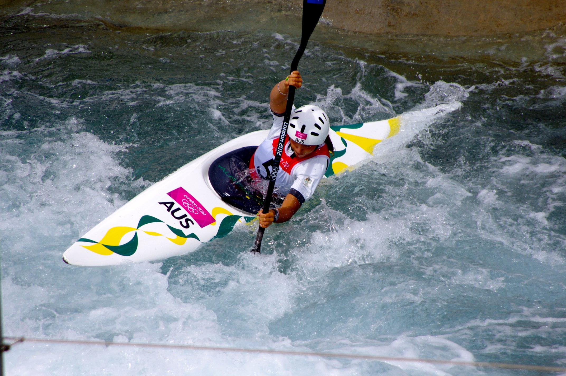 Canoeing at the 2012 Summer Olympics – Women's slalom K-1 Jessica Fox (AUS)